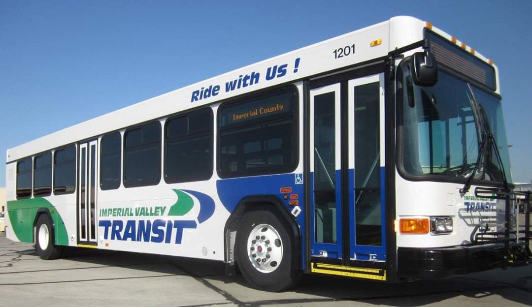 A bus from the Imperial Valley transit fleet